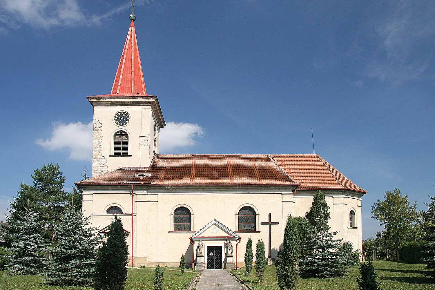 Saint George church in Lužec nad Cidlinou, Hradec Králové District, Czech Republic autor: Prazak date: 17. 9. 2006